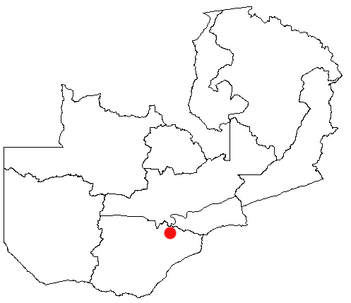 Mazabuka, Zambia Location Map; created with the GIMP.